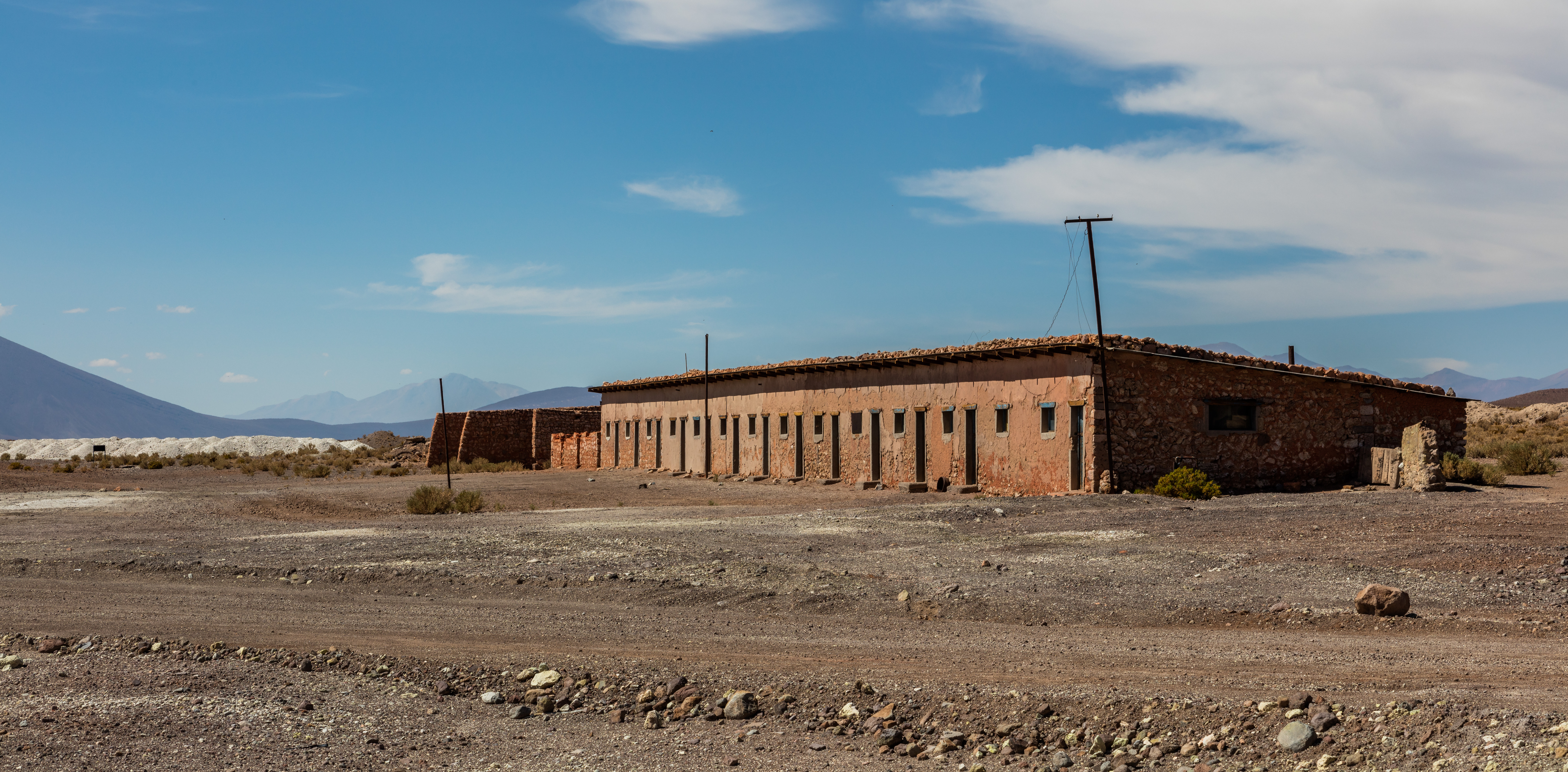 Aucanquilcha camp, Chile